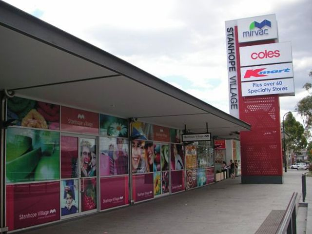 Shopping centre, Stanhope Gardens, Sydney (image has been modified by User:Sardaka by straightening and increasing saturation, 2019-11-12)